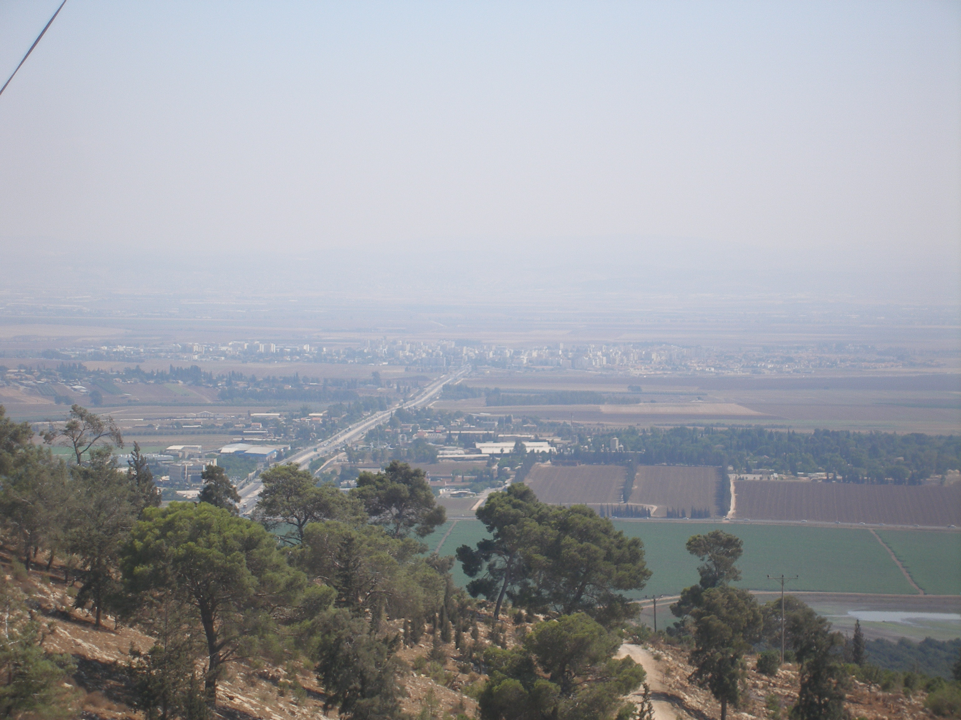 Afula and Jezreel Valley. The photo was taken fron Nazareth